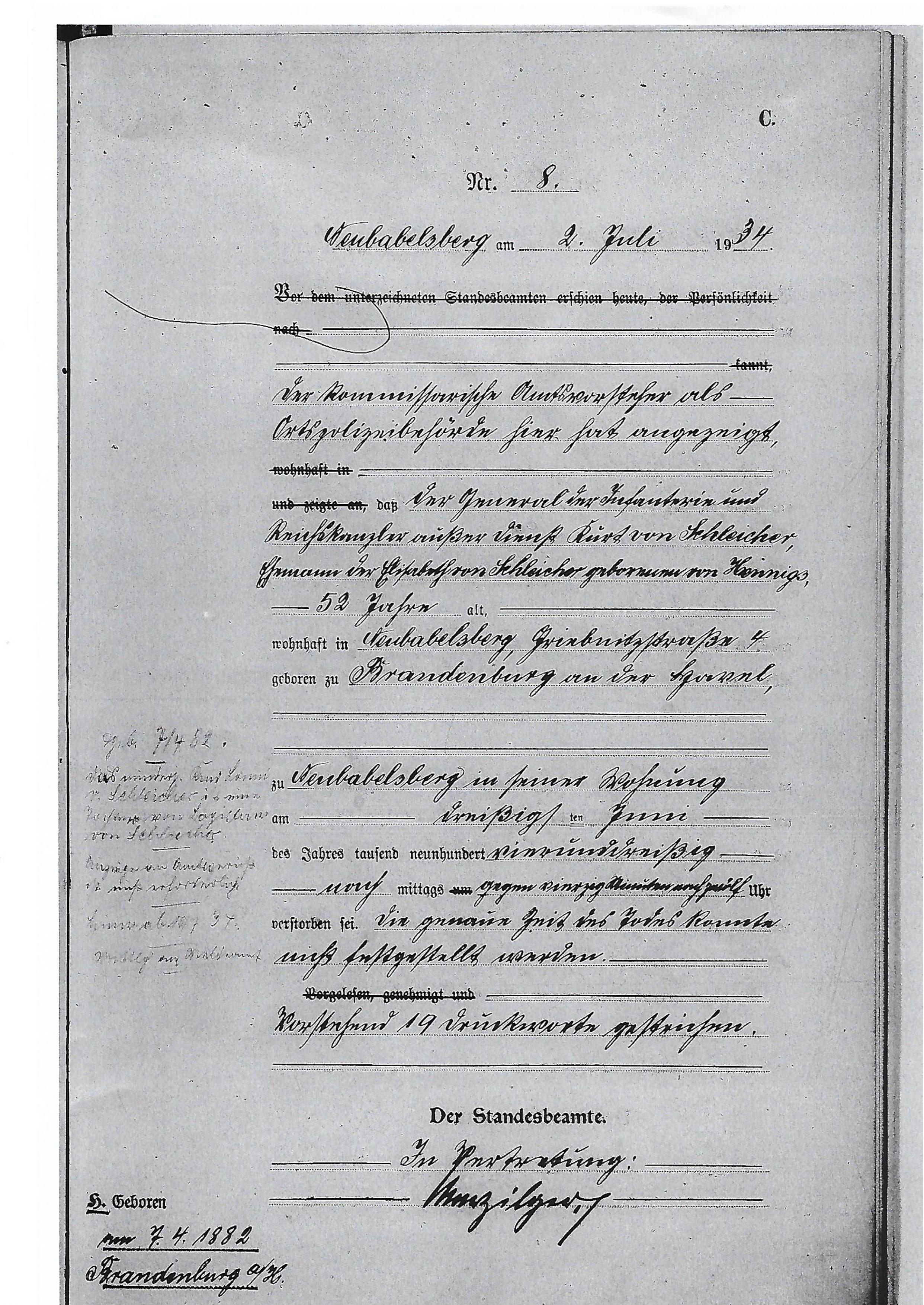 Death Certificate of the general and Reich-Chancellor Kurt von Schleicher, issued on July 2 1934, two days after he was murdered.